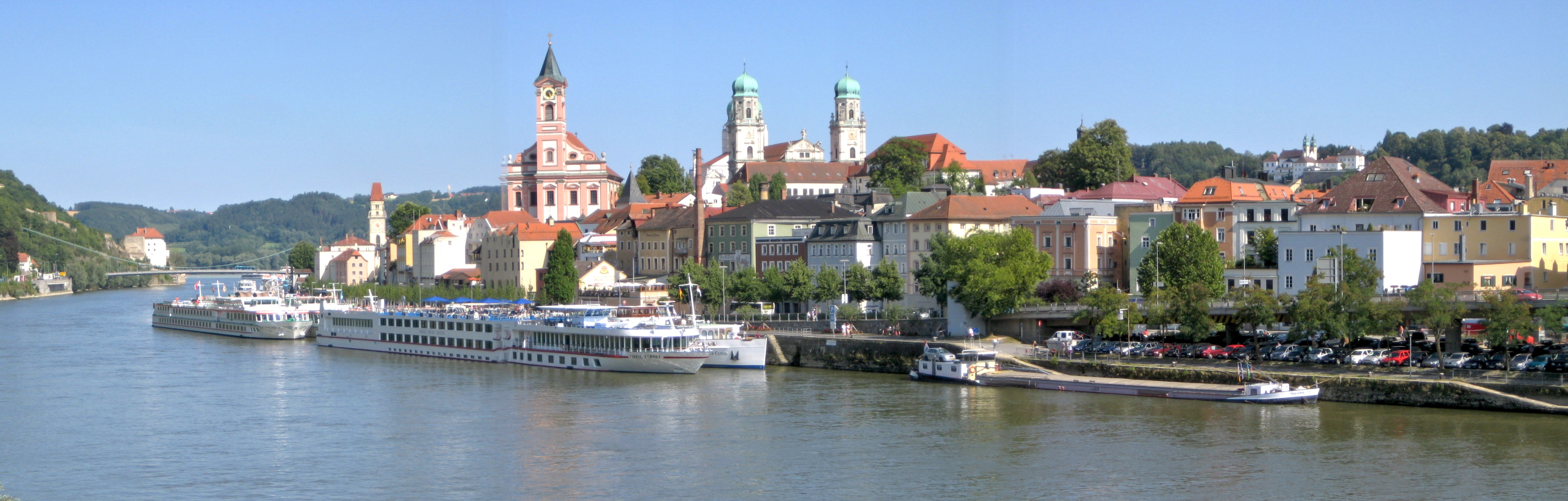 The Old Town of Passau at the Danube Panorama Stitch